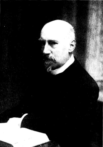 Ernest Coppieters-Stochove (1848-1936)